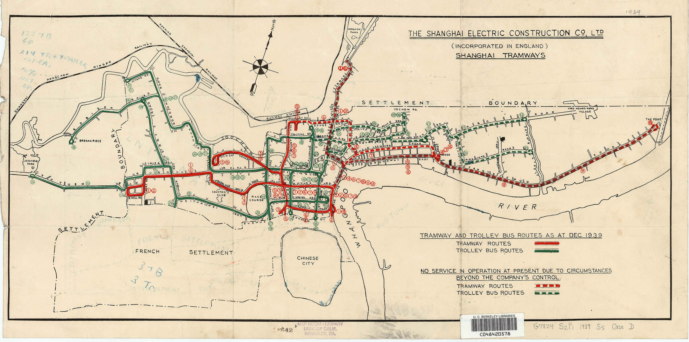 A map showing the tramways and trolley bus routes in Shanghai International Settlement in Dec 1939